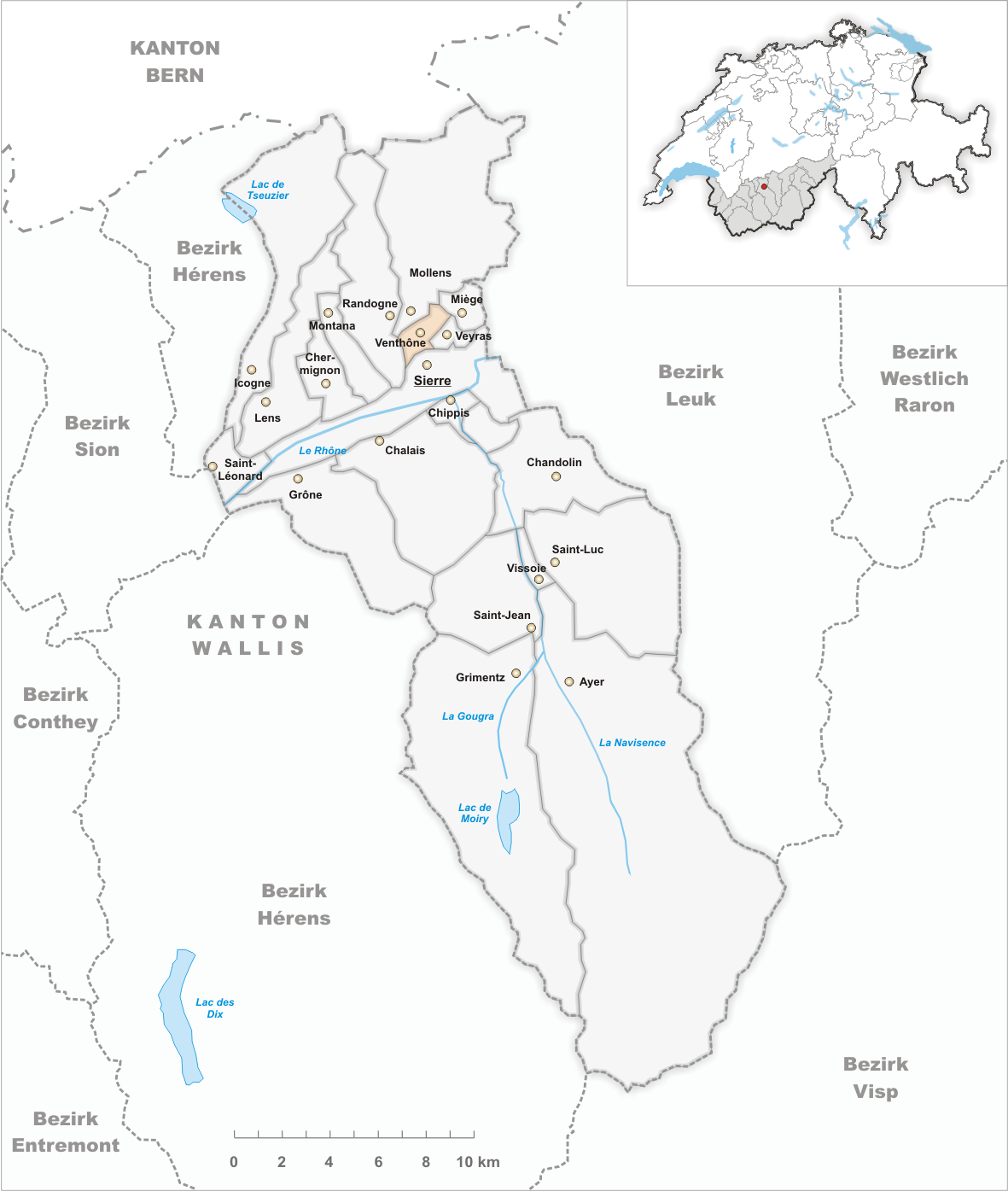 Municipality Venthône